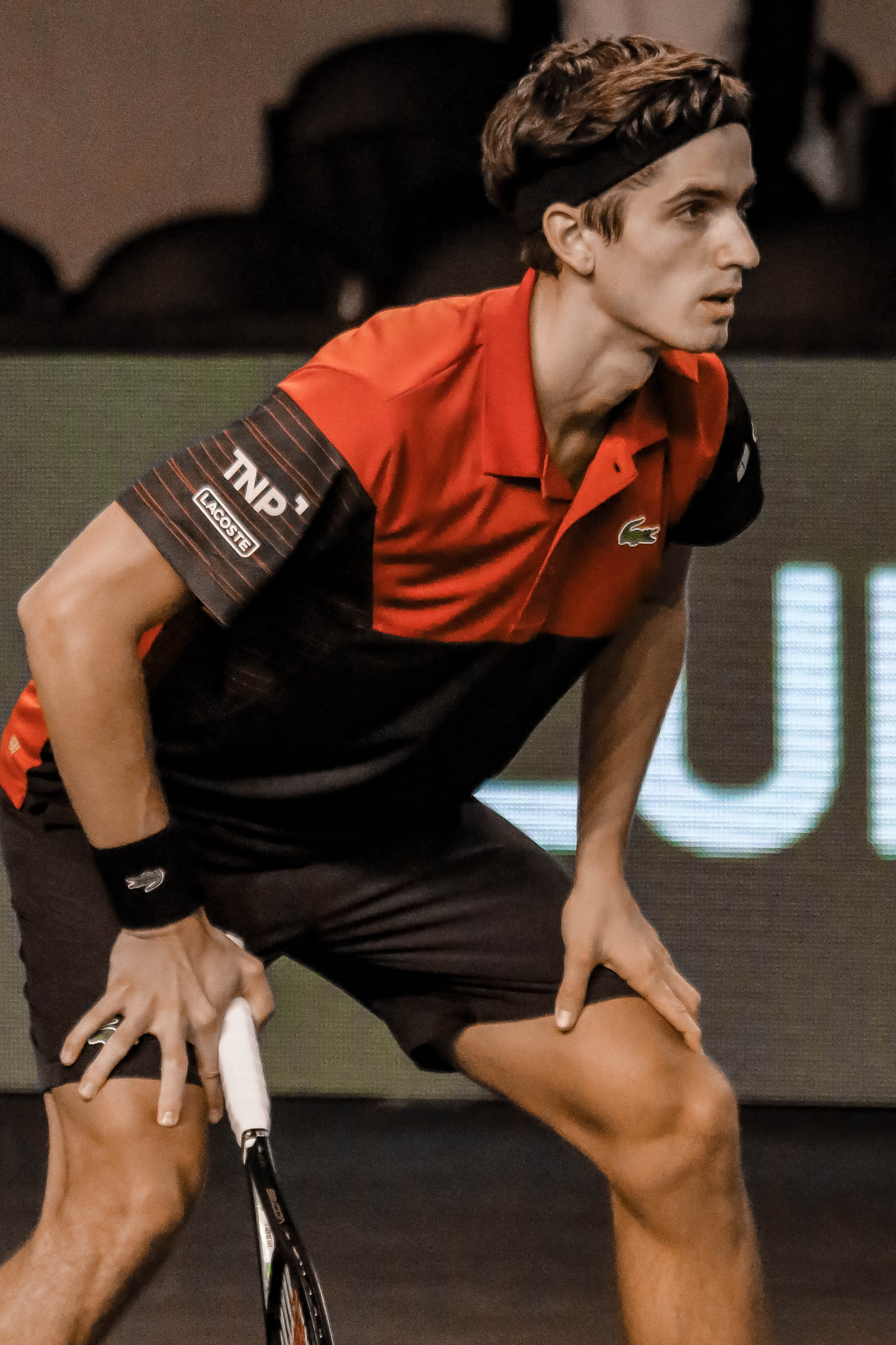 Pierre-Hugues Herbert, Paris Masters 2019